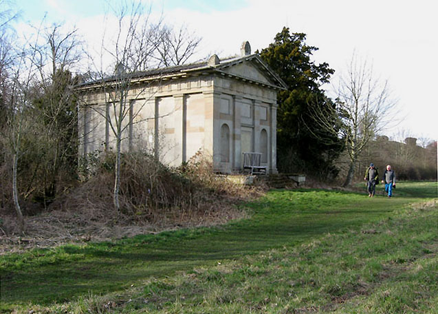 Mausoleum on Springwood Estate This mausoleum near the River Teviot is for the Scott Douglas family.